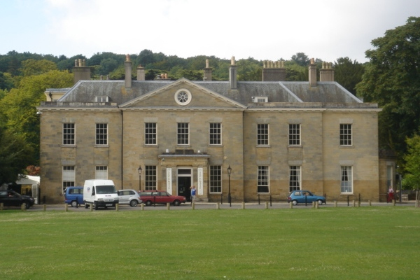 Stanmer House, Stanmer Park, Brighton. Built between 1722 and 1727 for the Pelham family (Earls of Chichester); extended in 1860. Listed at Grade I by English Heritage (IoE code 481301)